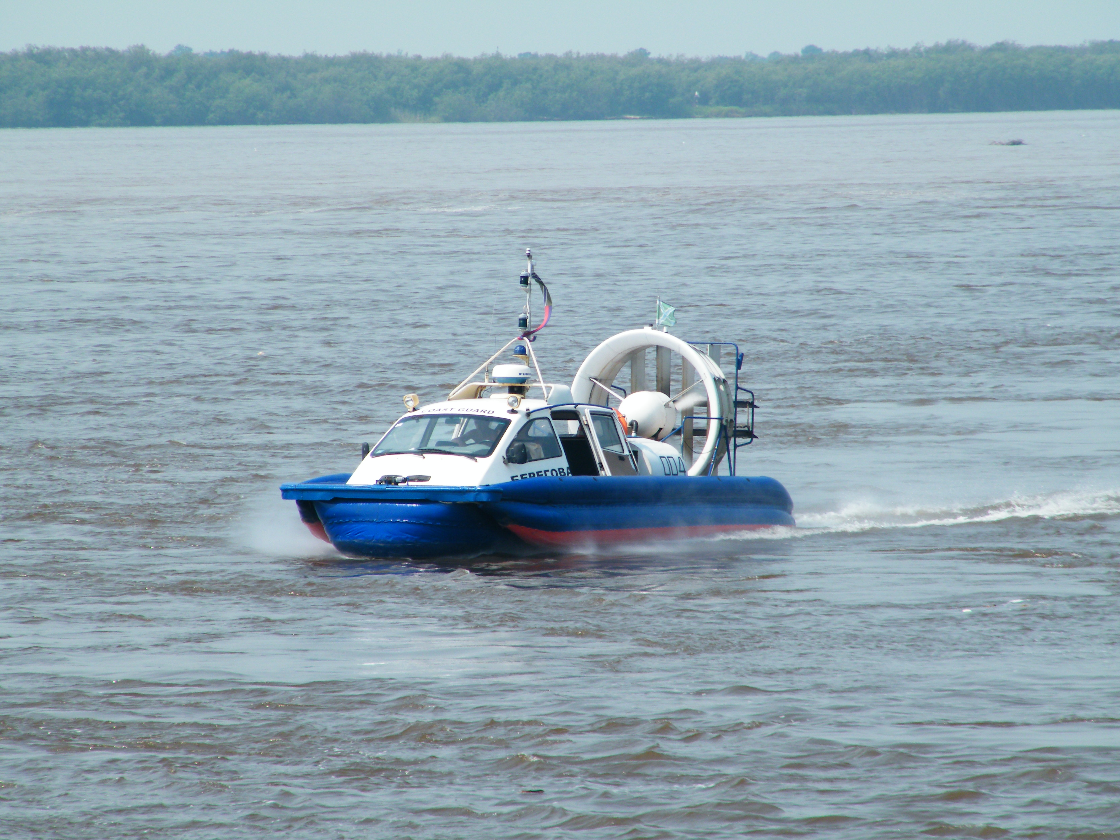 Река Амур, пограничный катер на возд подушке